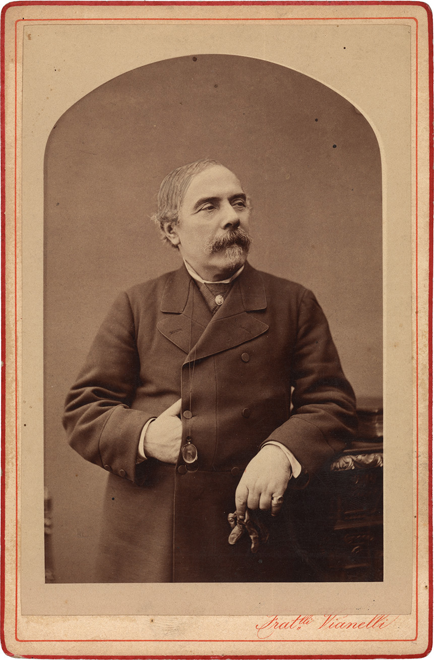 Portrait of Nicola De Giosa, composer (1819-1885). Photo by Fratelli Vianelli, before 1885.